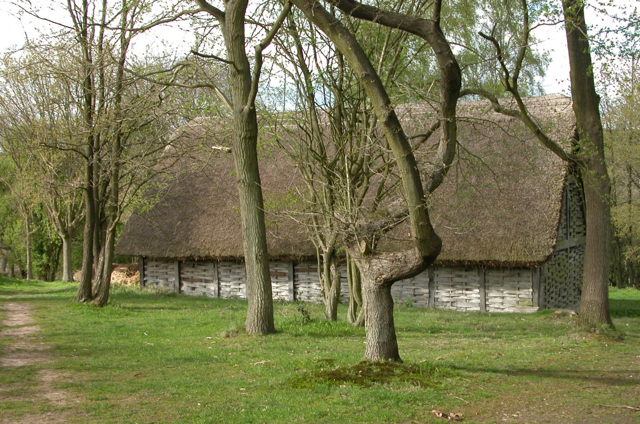 Arbirfield Barn at Chiltern Open Air Museum Scheune aus Arbofield im Chiltern Open Air Museum. 500 Jahre alte Scheune